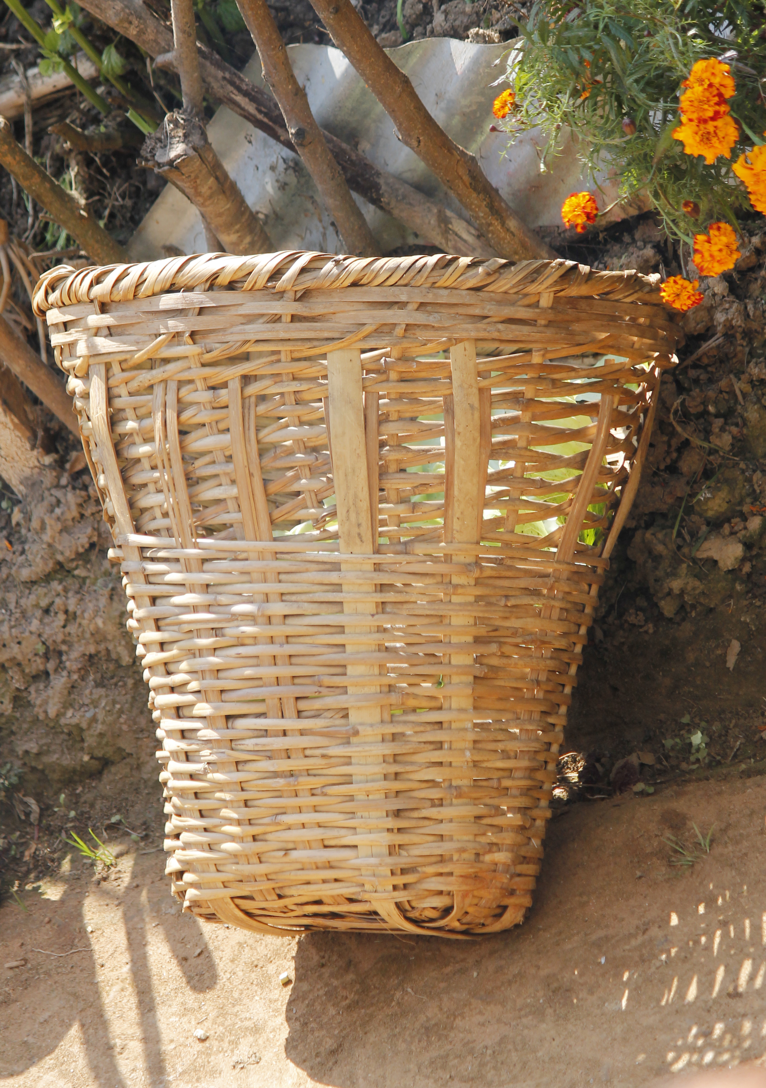 Doko (Nepali: डोको) is a kind of basket made from bamboo. They are hand-woven in a conical or "V" shape. Dokos are especially used by porters to carry goods in Nepal.